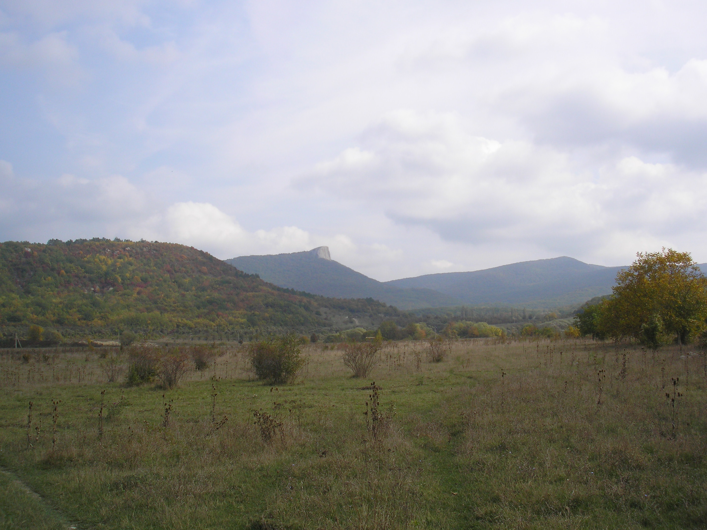 Location of former Khmeli village in the valley of Khmeli river, Belogorsky region, Crimea